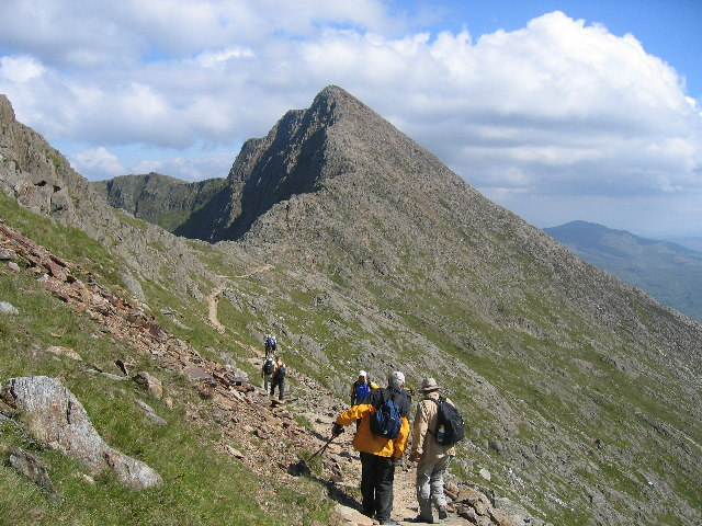 Y Lliwedd from the north west. Y Lliwedd is on the Snowdon Horseshoe after Snowdon itself